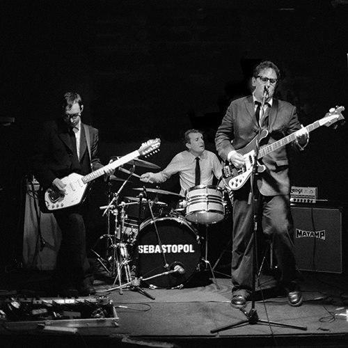 Sebastopol Live in London 2012.